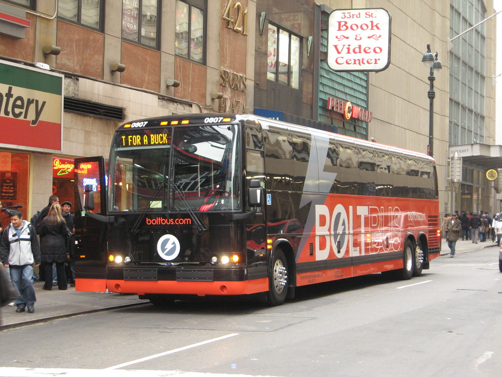 Greyhound Lines BoltBus Prevost X3-45 #0807 arrives in New York City from Washington, D.C.